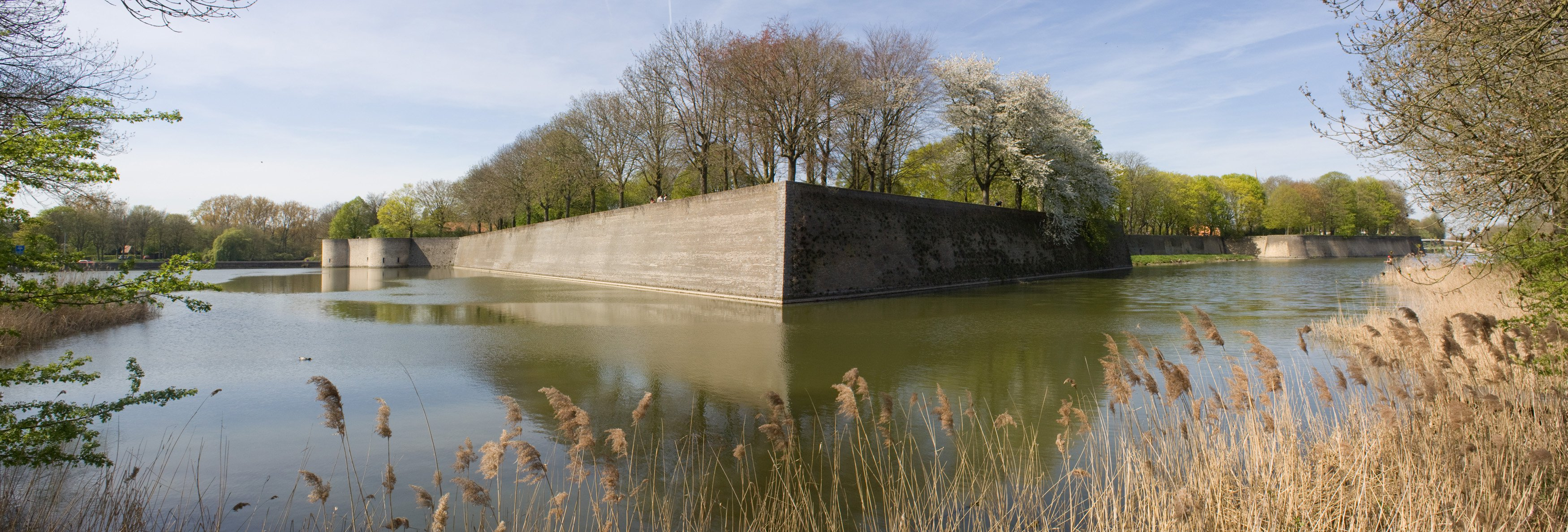 Fortifications from Ieper, Belgium